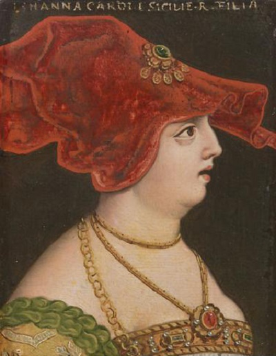 Johanna II of Naples